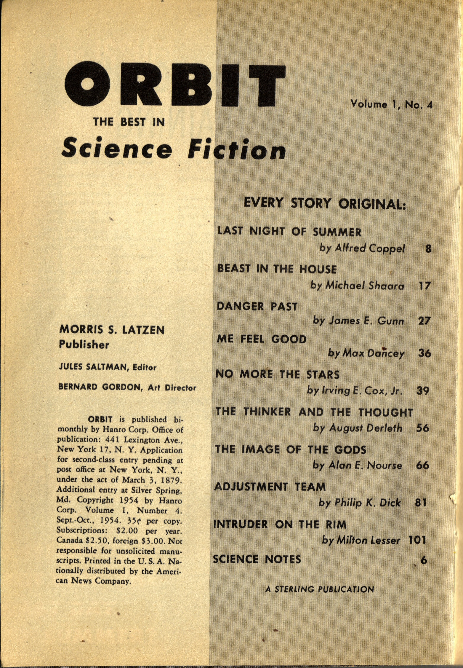 Table of Contents of Orbit Science Fiction No. 4, Sept.-Oct. 1954. Verifies true first publication of "Adjustment Team" by Philip K. Dick. Illustrates publication of stories by many notable SF authors in context of publishing era and presentation to readers of era. "Adjustment Team" is the inspiration for the movie The Adjustment Bureau scheduled for release in 2010. The movie's Executive Producer is the author's second daughter, Isa Dick Hackett. Other authors in this issue are Alfred Coppel, Michael Shaara, James E. Gunn, Max Dancey, Irving E. Cox, Jr., August Derleth, Alan E. Nourse and Milton Lesser (better known by pen name, Stephen Marlowe).